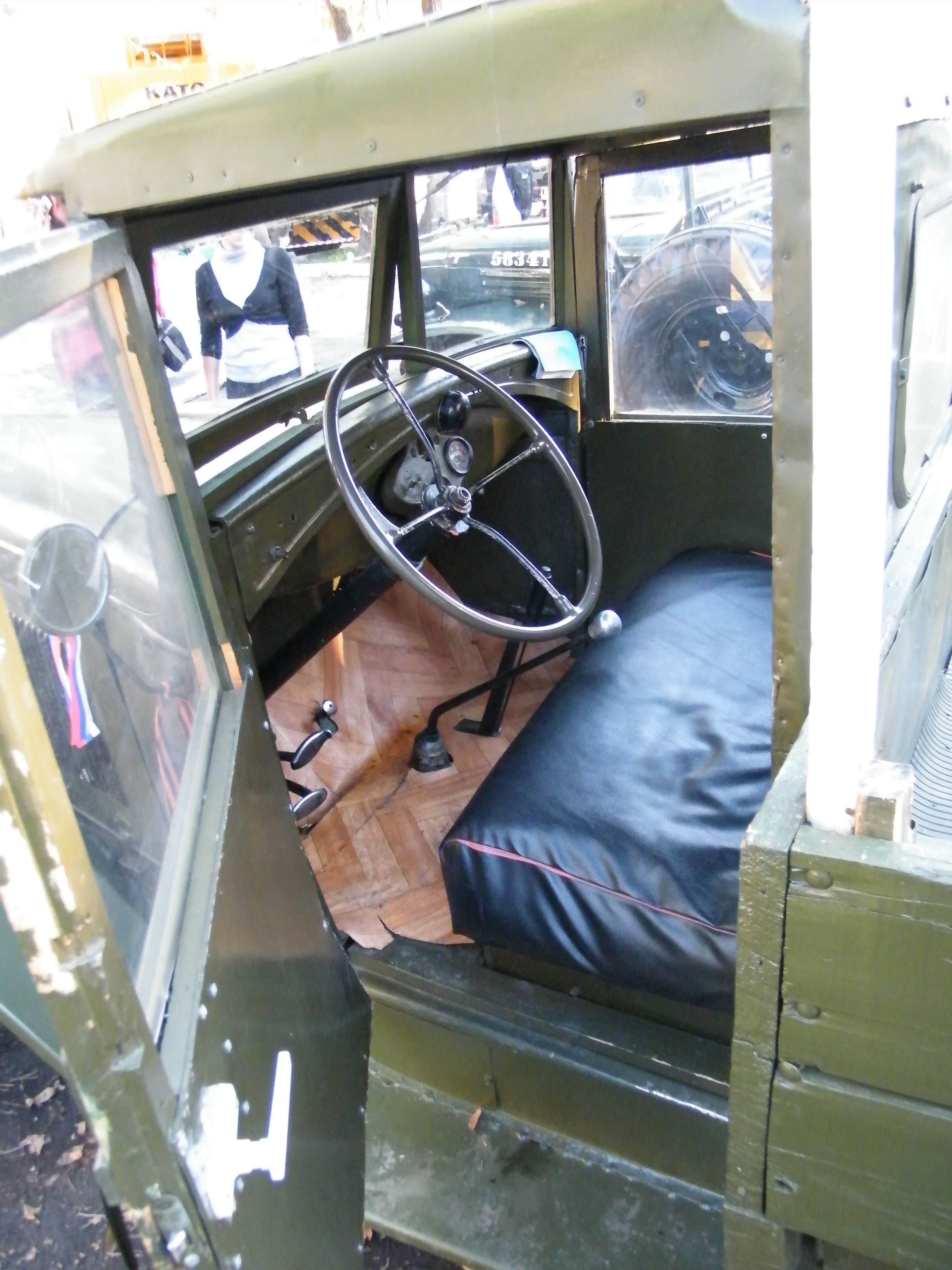 GAZ-4